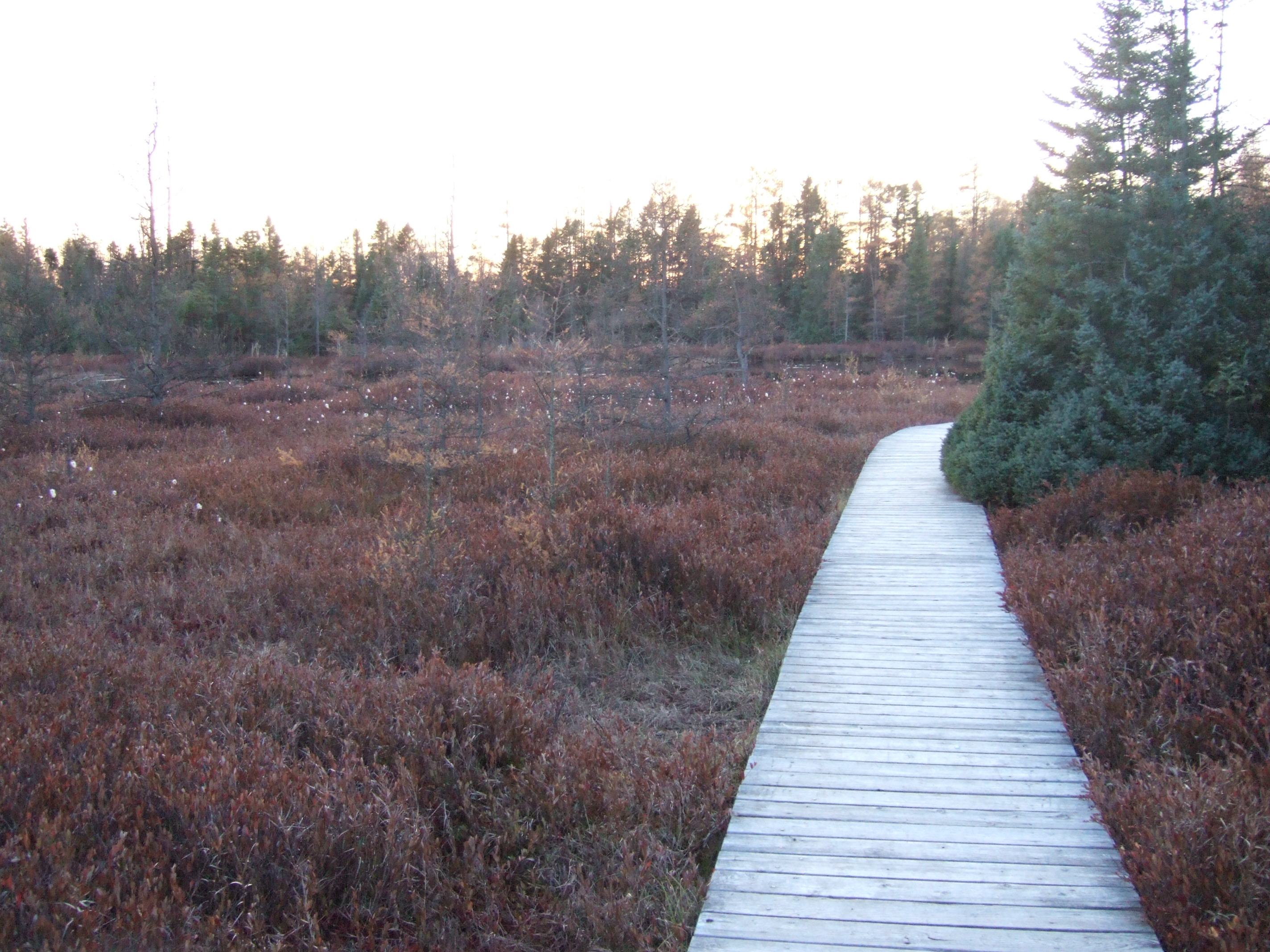 Sifton Bog, London ON, Canada